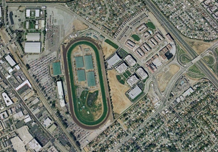 Aerial view of the facility from 2002, prior to demolition